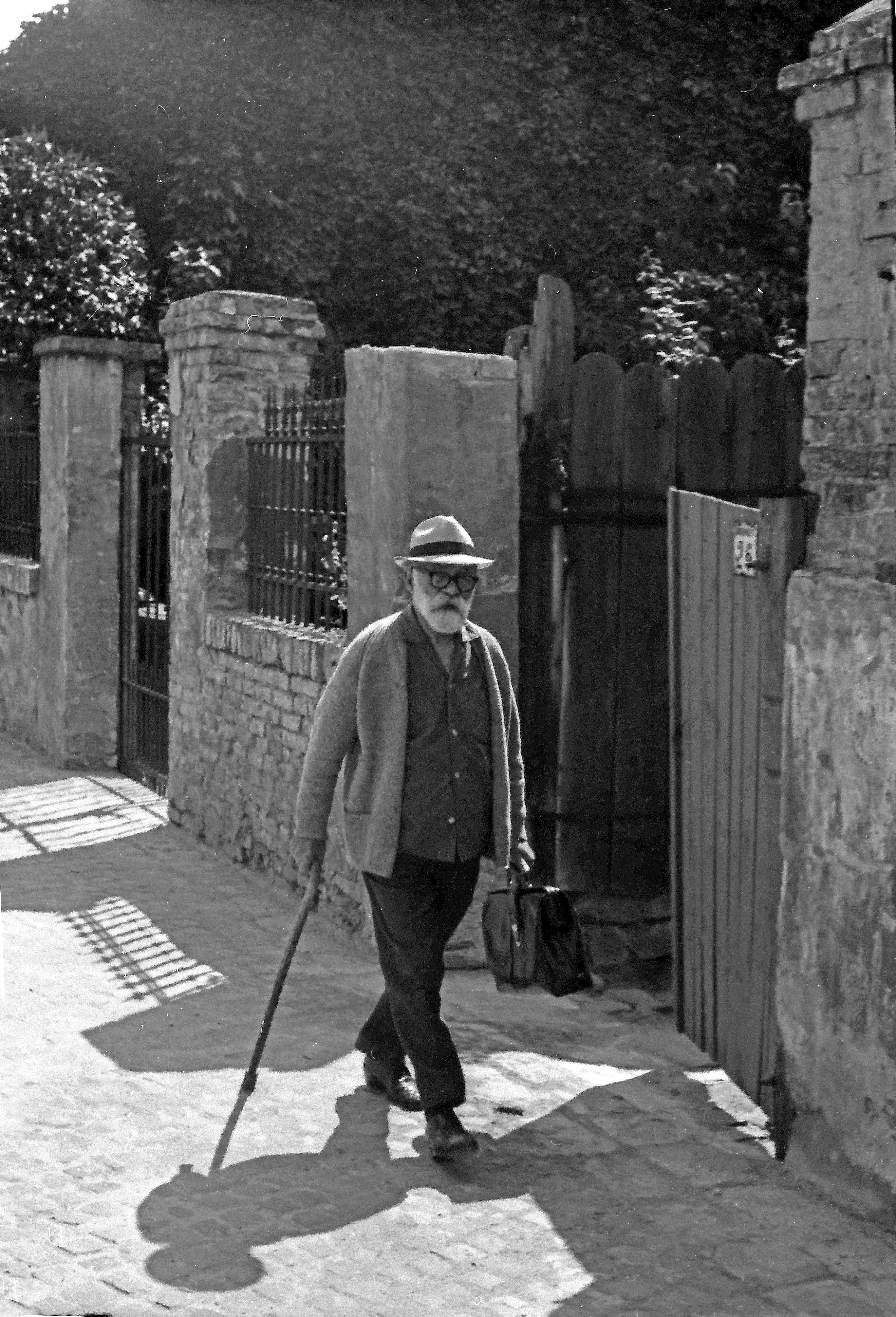 Jenő Barcsay walking down the street Szentendre in May 1978 Nr 01